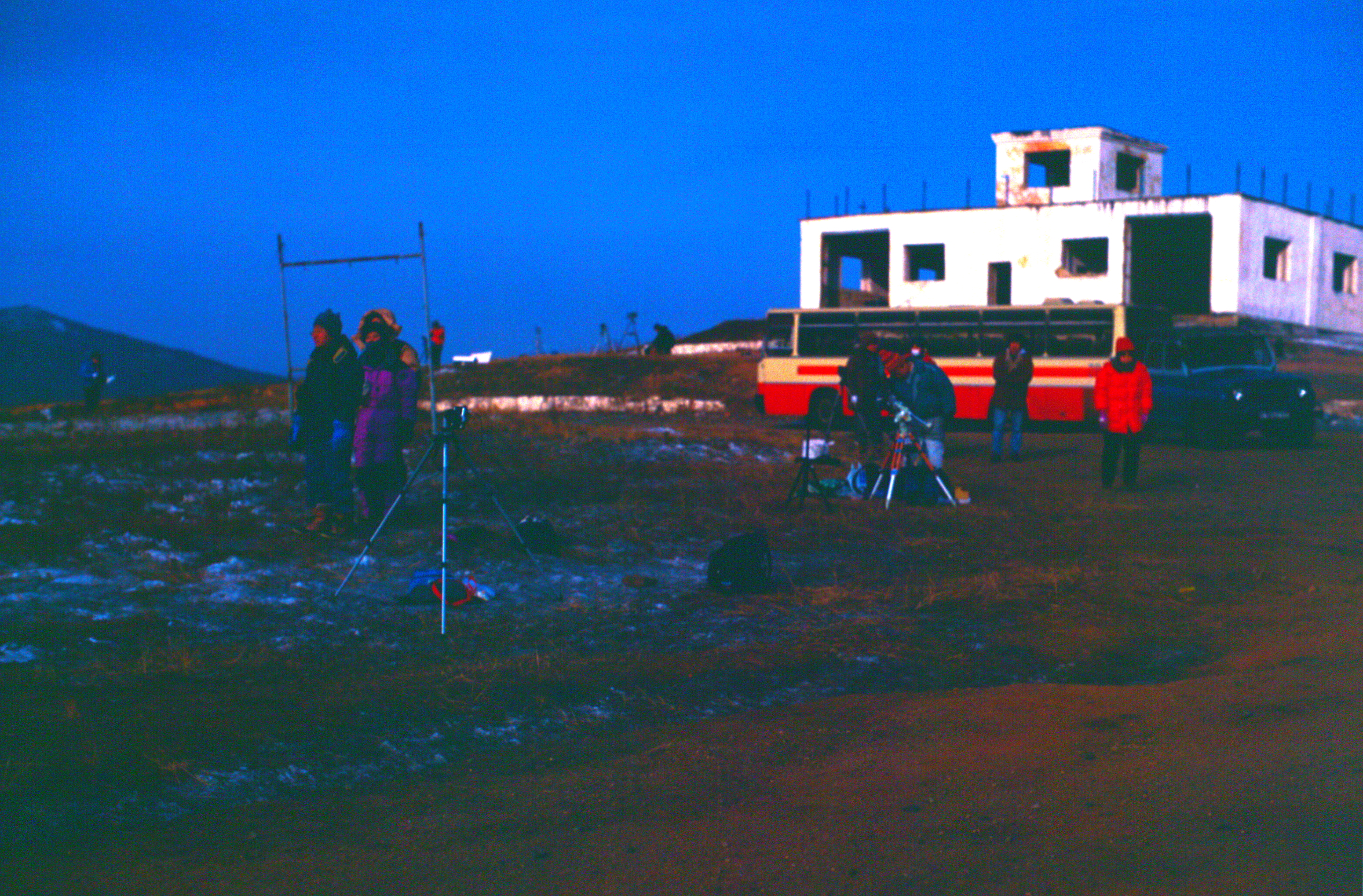 Figure which observed a solar eclipse in Chita, Russia.